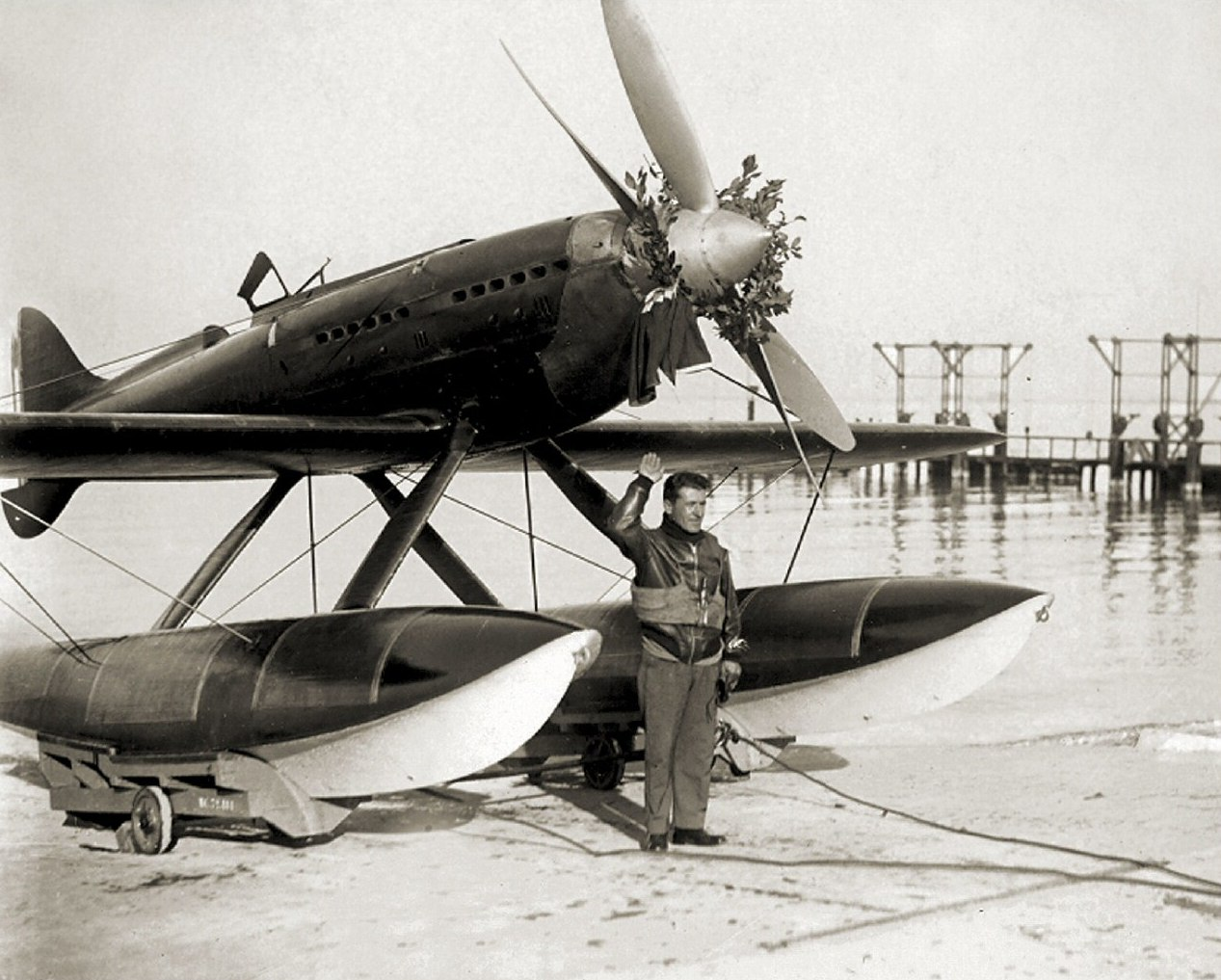 Agello behind his Macchi MC.72 on october 23th, 1934 after the speed record of 440.681 mph